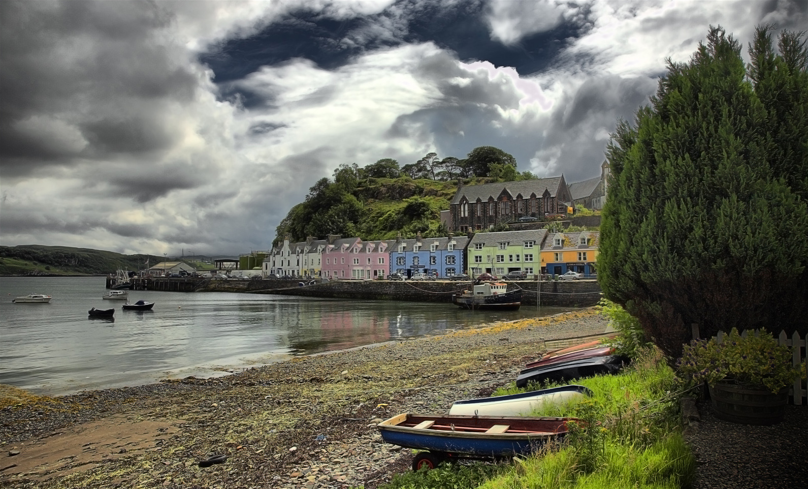 Great Britain, Skye, Portree